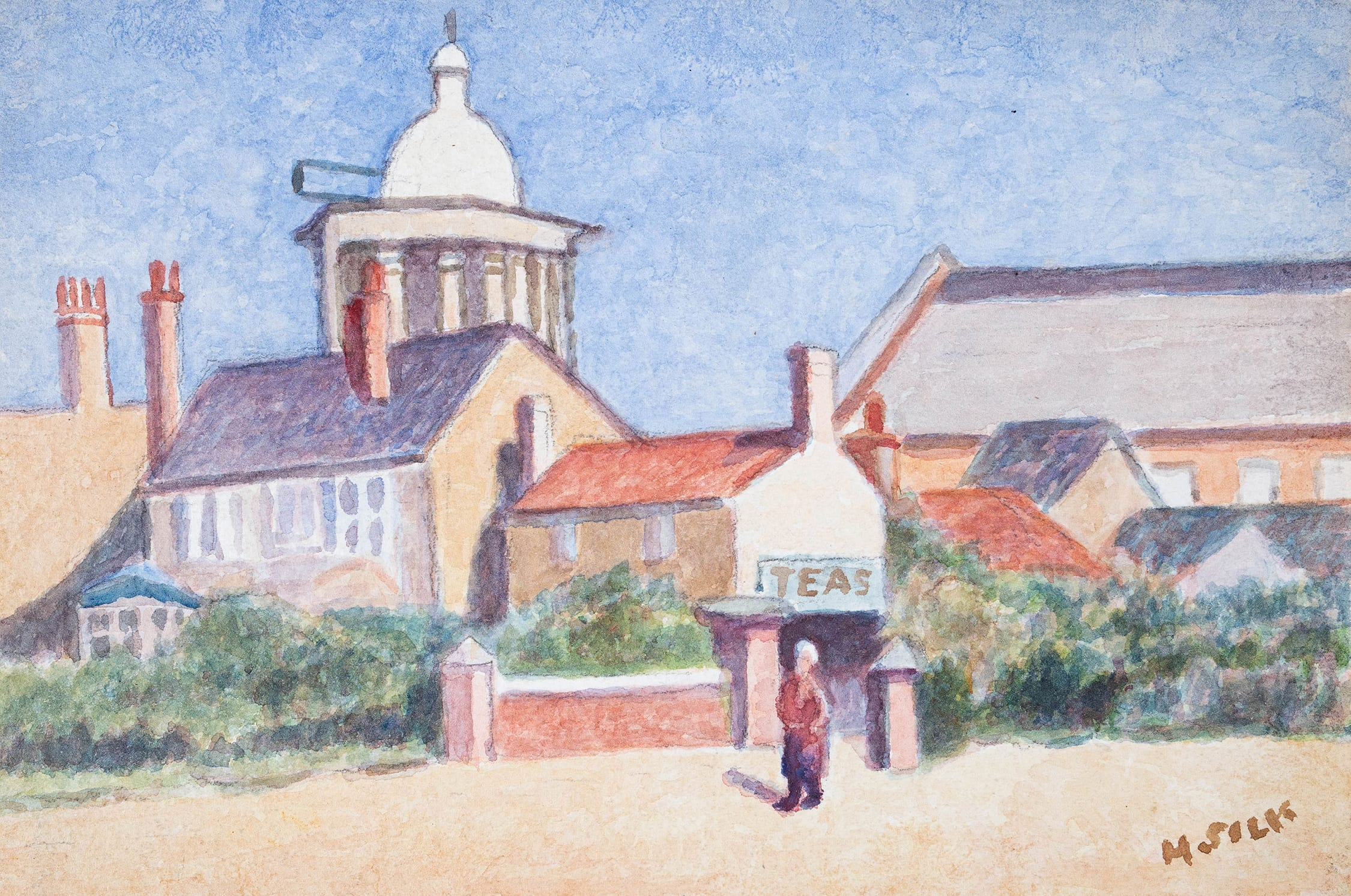 Offered for sale in November 2019 by Abbott and Holder, when it was described as "SILK Henry (1883-1948) The Kursaal, Southend. Watercolour. Circa 1930. Signed. Provenance: the Artist’s family and by descent. 5.5x8.5 inches."